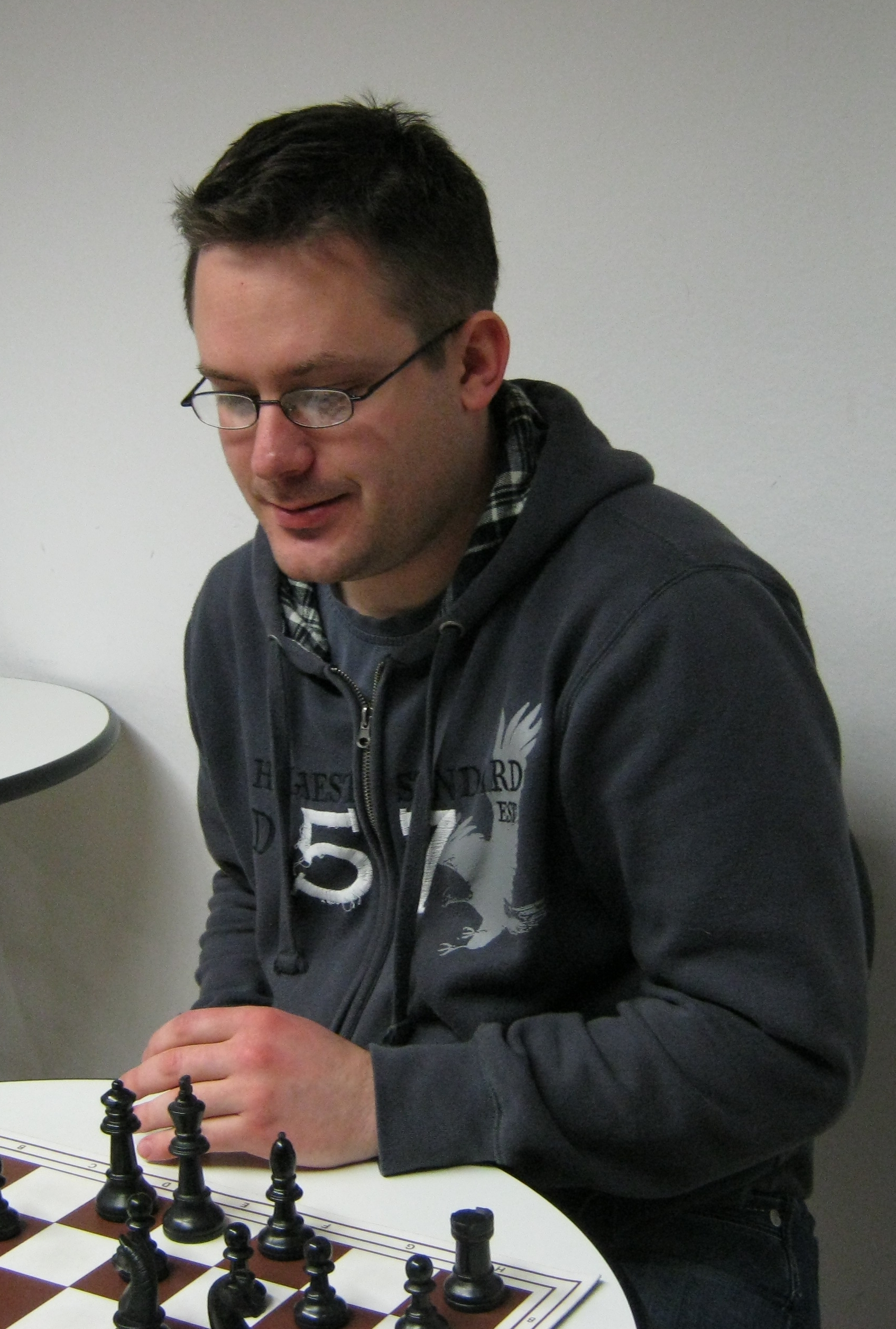 Aleksander Miśta, chess grandmaster from Poland